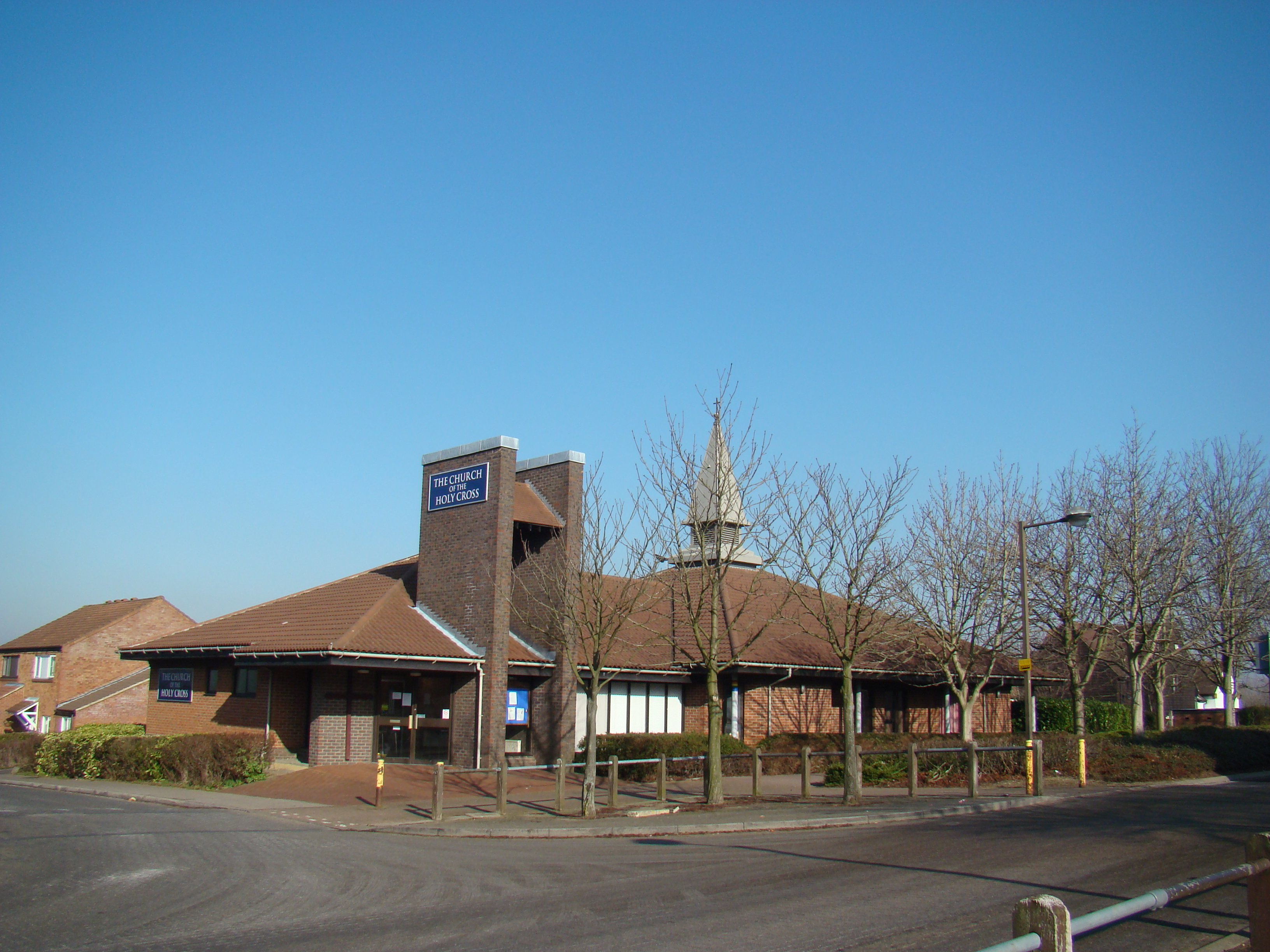 Church of the Holy Cross, Church Hill, Two Mile Ash, Milton Keynes, Buckinghamshire